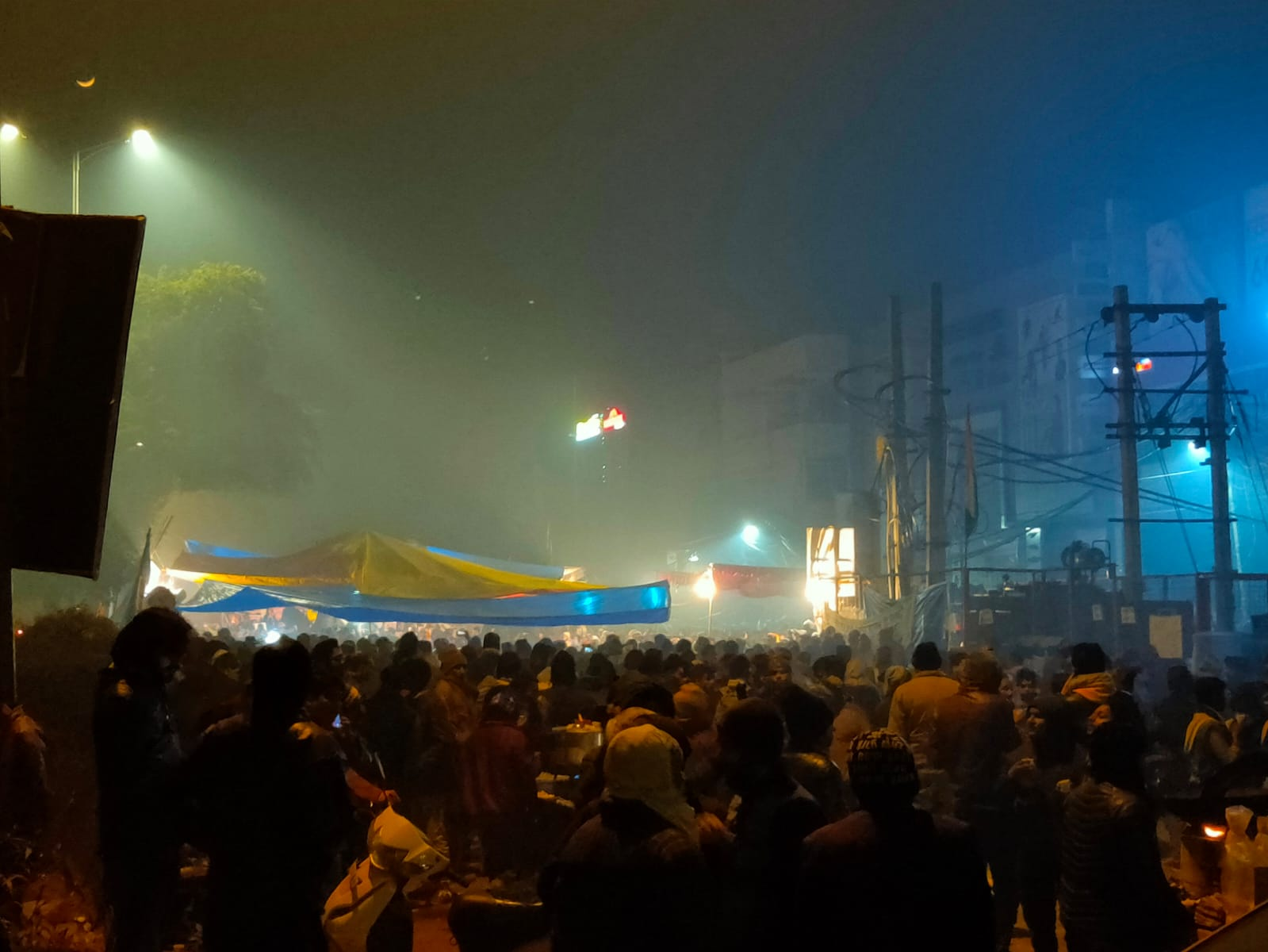 Shaheen Bagh on the 31st of December, 2019. The demonstrations against CAA-NRC and police assault on JMI was being held in Shaheen Bagh uninterrupted for 15 days.